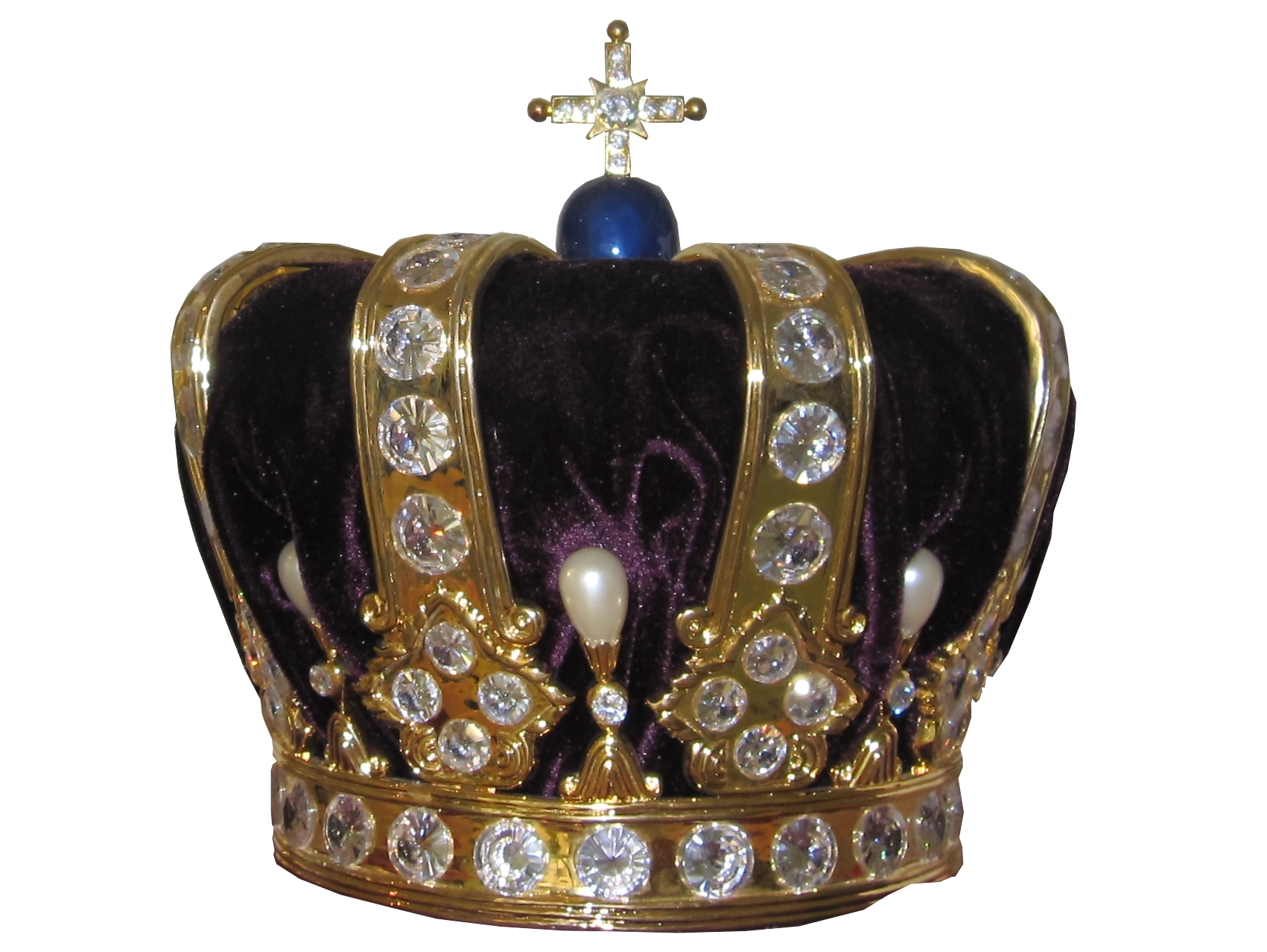 Not complete correct copy of the Crown ofFriedrich I von Preußen, made as a souvenir for collectors. Details: Replica in the original size, 22 cm. Brass gold plated with 24 karat and zircons (Swarovski crystals).